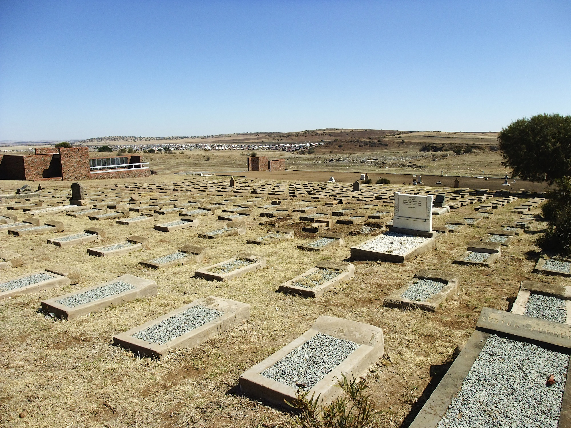 British and Concentration Camp Cemetery in Winburg This media shows a South African Protected Site with SAHRA file reference 9/2/306/0003.